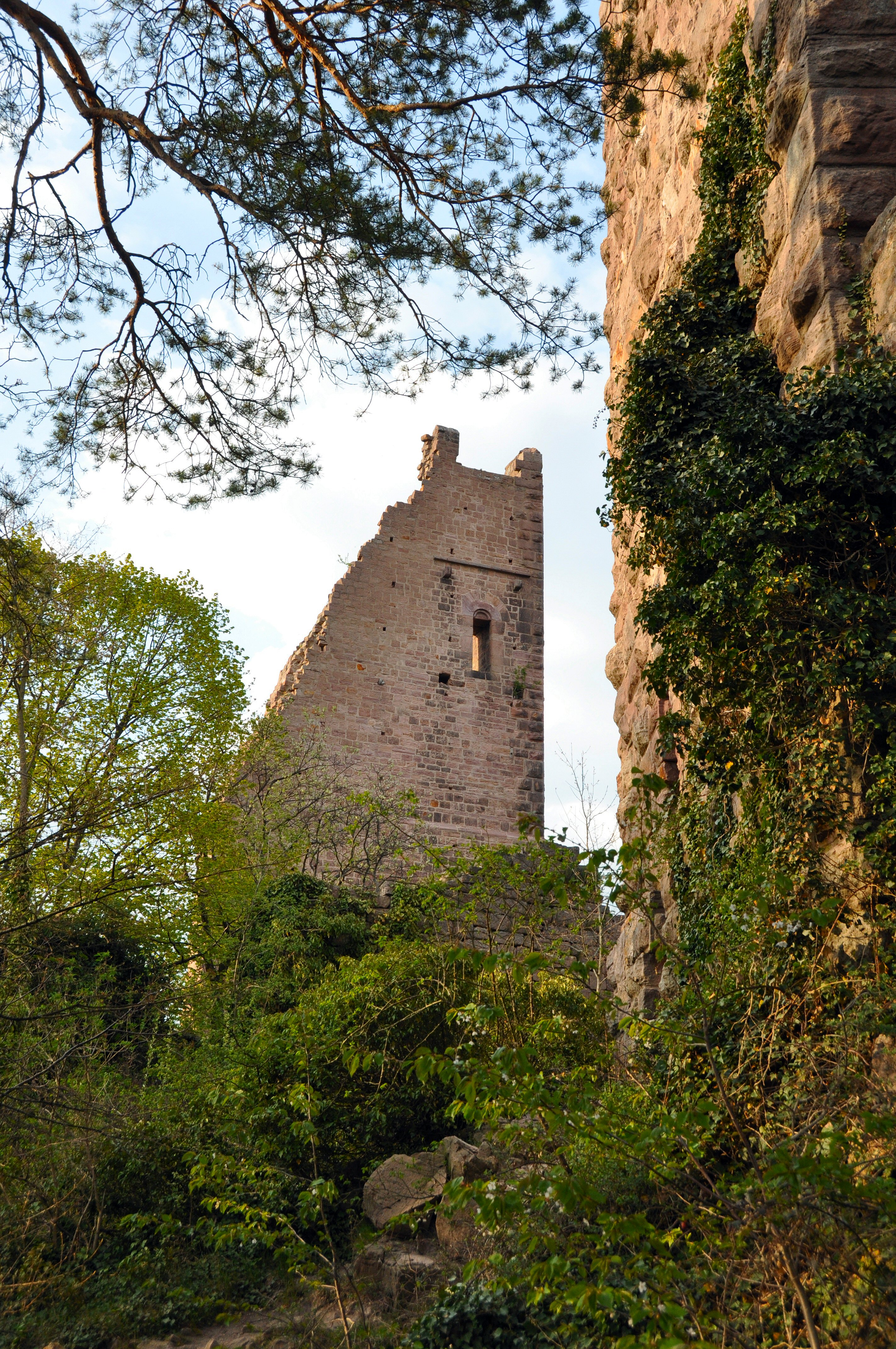 Castle Ruins near Colmar, France